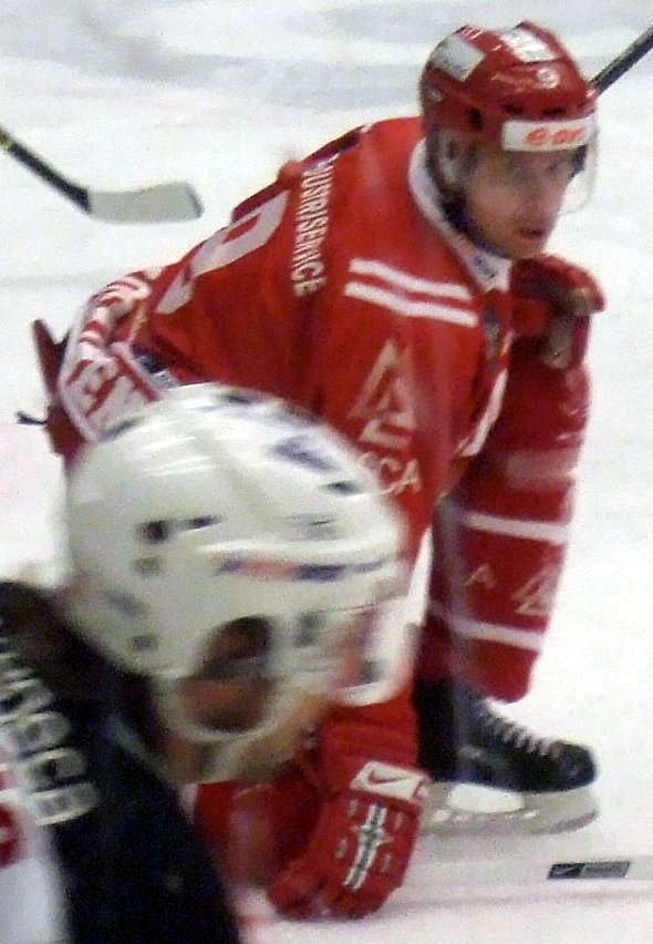 Ice hockey player Kalle Koskinen of Timrå IK in E.ON Arena, Timrå, Sweden